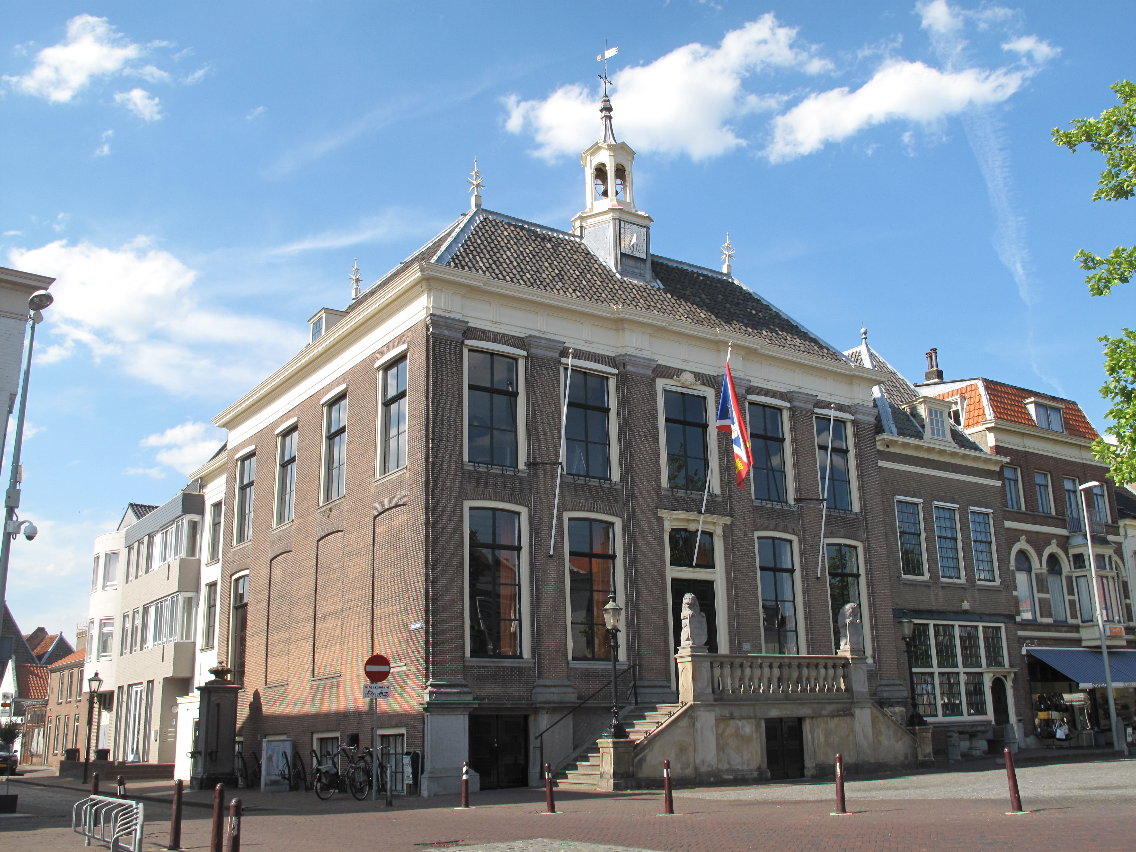 Zaltbommel, monumental building